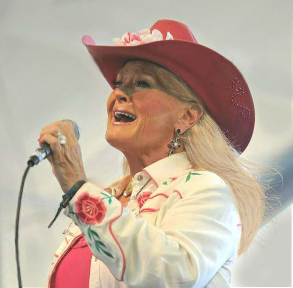 Lynn Anderson in concert, 2010